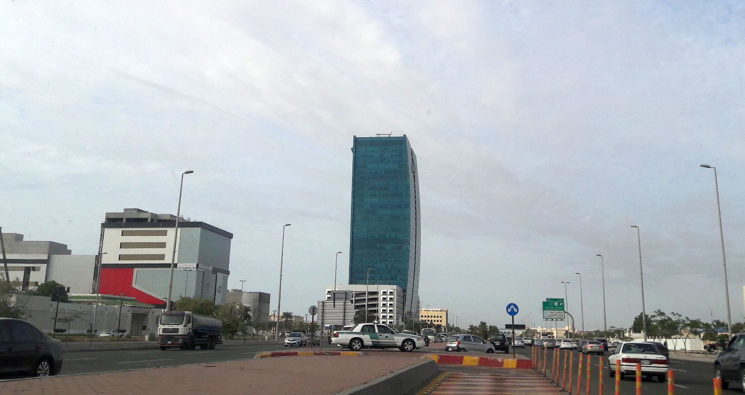 King's Road Tower